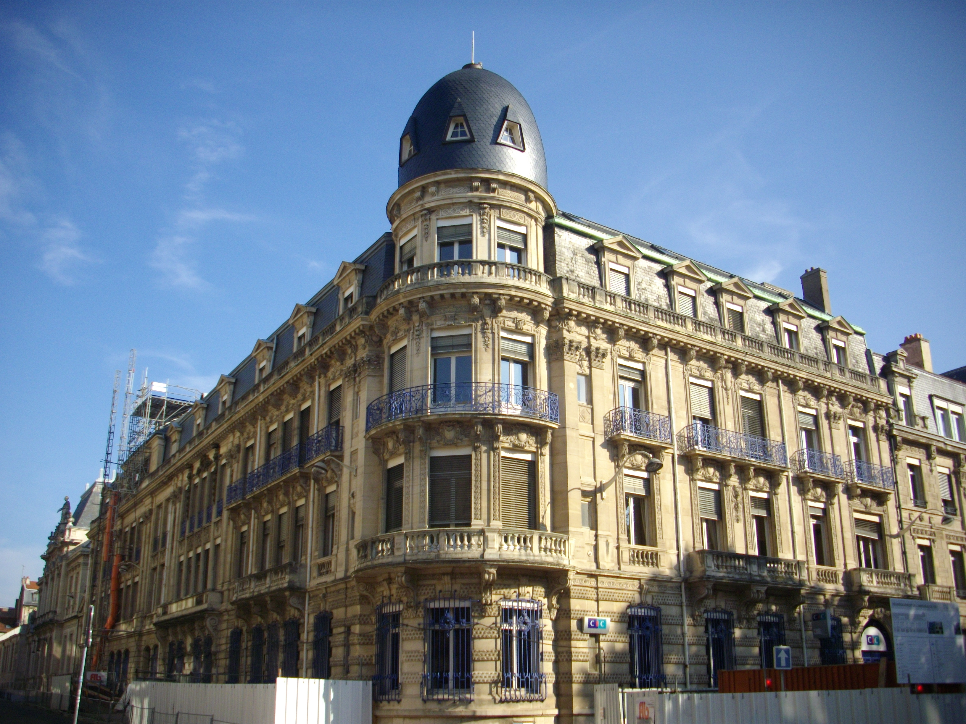 SNVB bank, 4 André Maginot square in Nancy (Meurth-et-Moselle, France) This building is indexed in the Base Mérimée, a database of architectural heritage maintained by the French Ministry of Culture, under the references PA00132624 and banque .